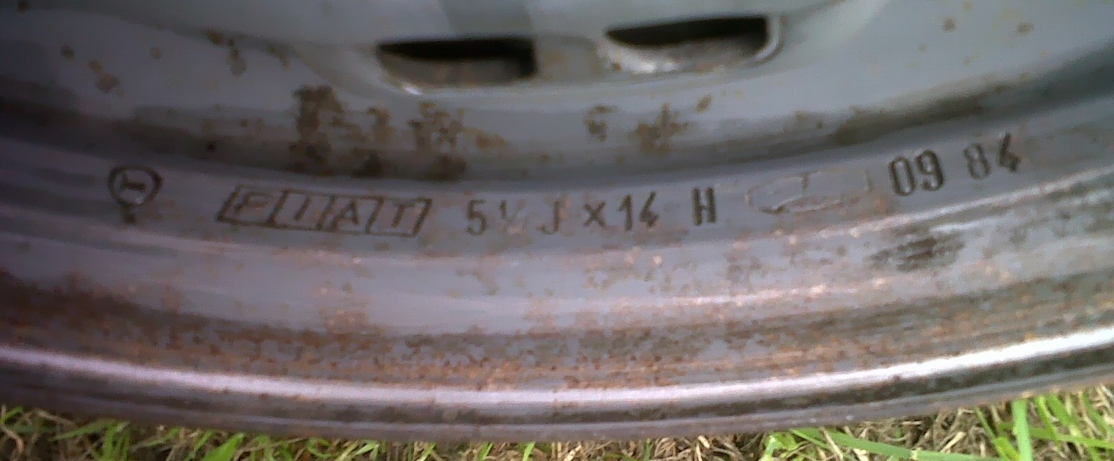 Measures printed on the rim